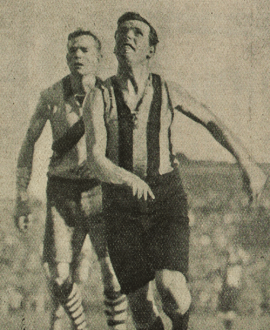 Photo of Maurie Sheehy from 1914-1922